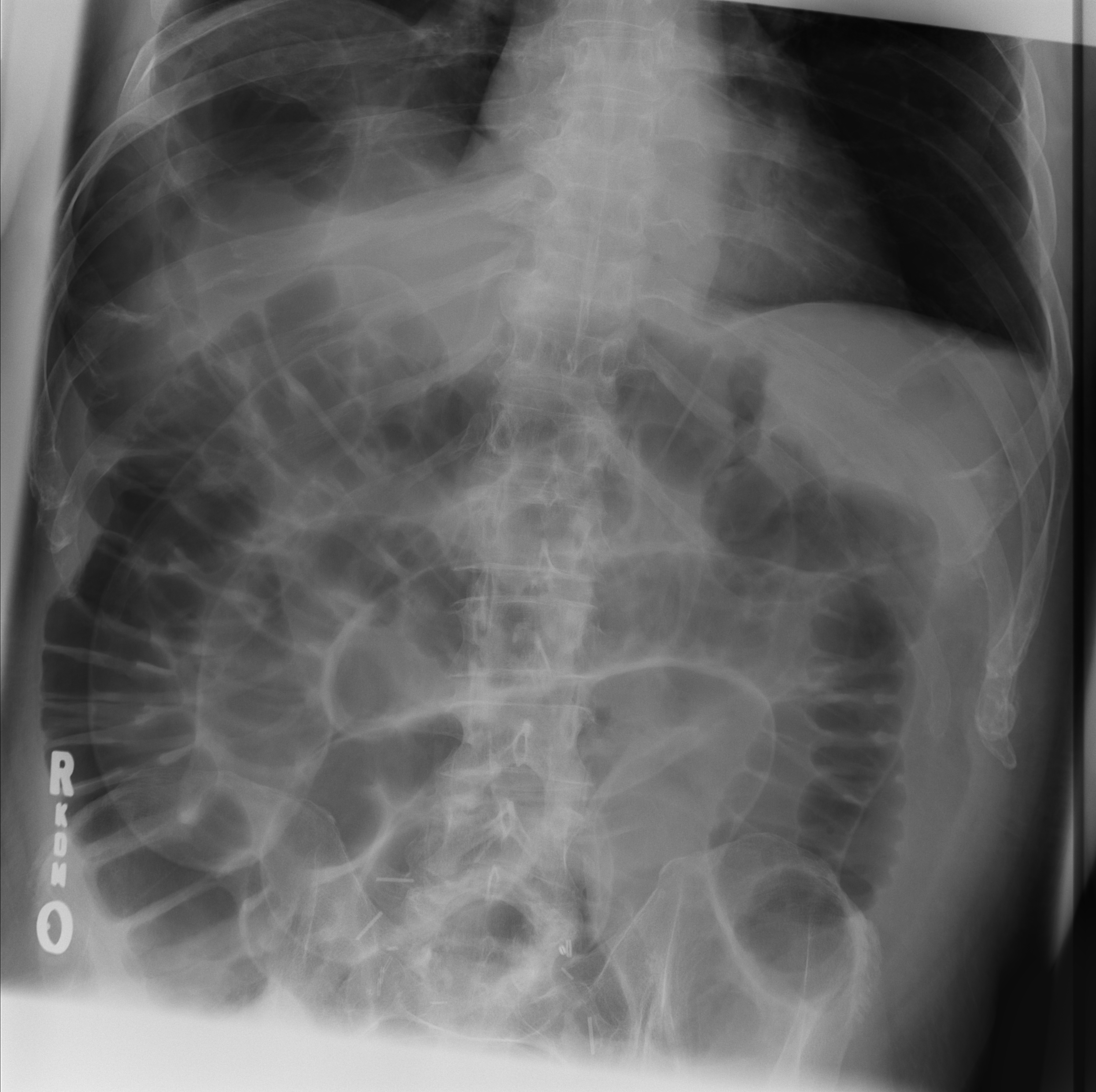 Double wall sign. This is a secondary sign of pneumoperitoneum. Patient is supine, and air within the abdomen and lumen of the bowel accentuate both sides of the bowel wall.